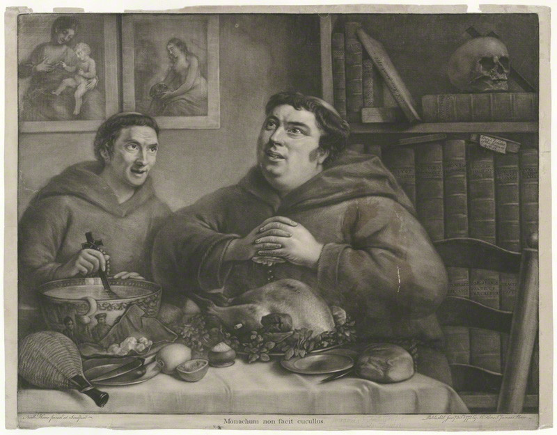 Portrait of Theodosius Forrest with Francis Grose, as monks.